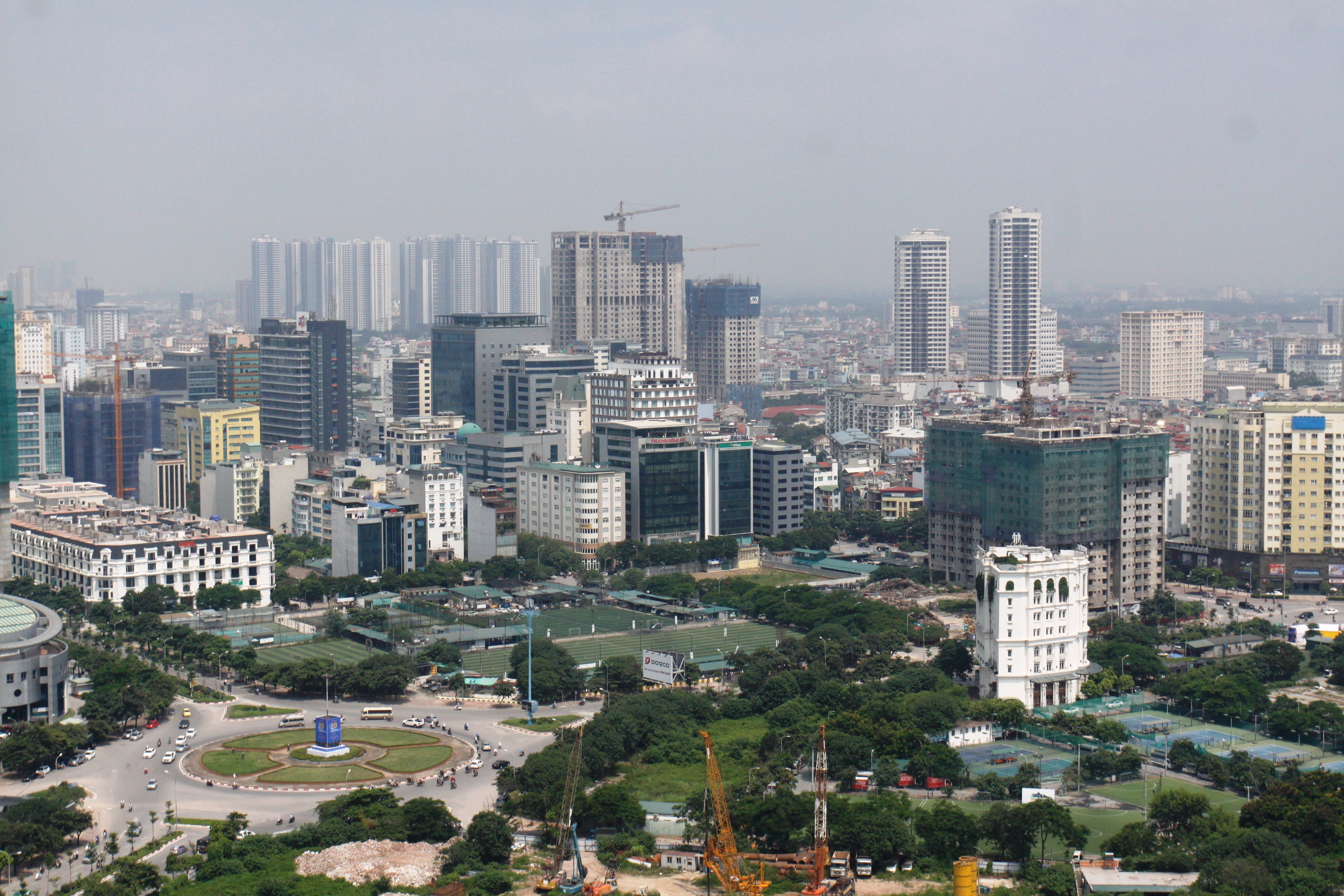 cau giay district